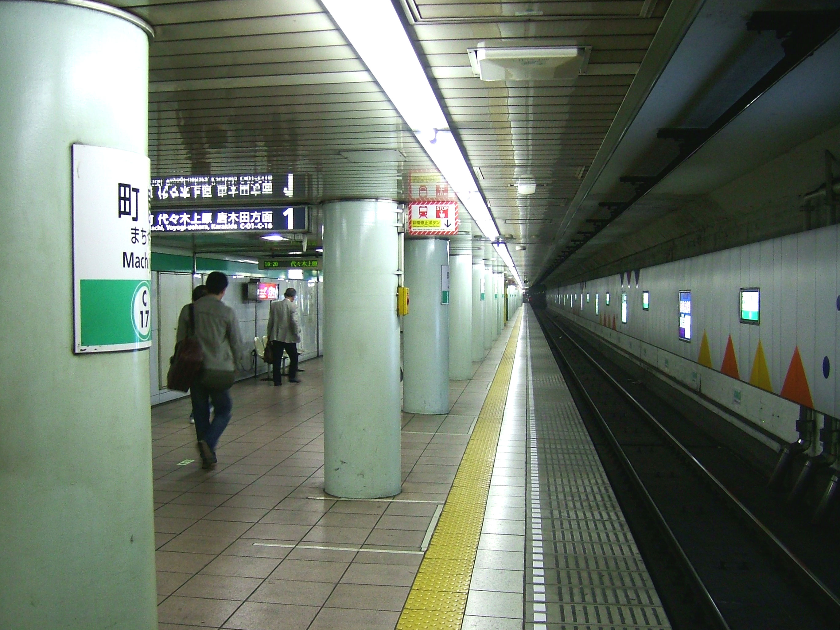 Machiya Station no.1 platform (Tokyo Metro Chiyoda Line)